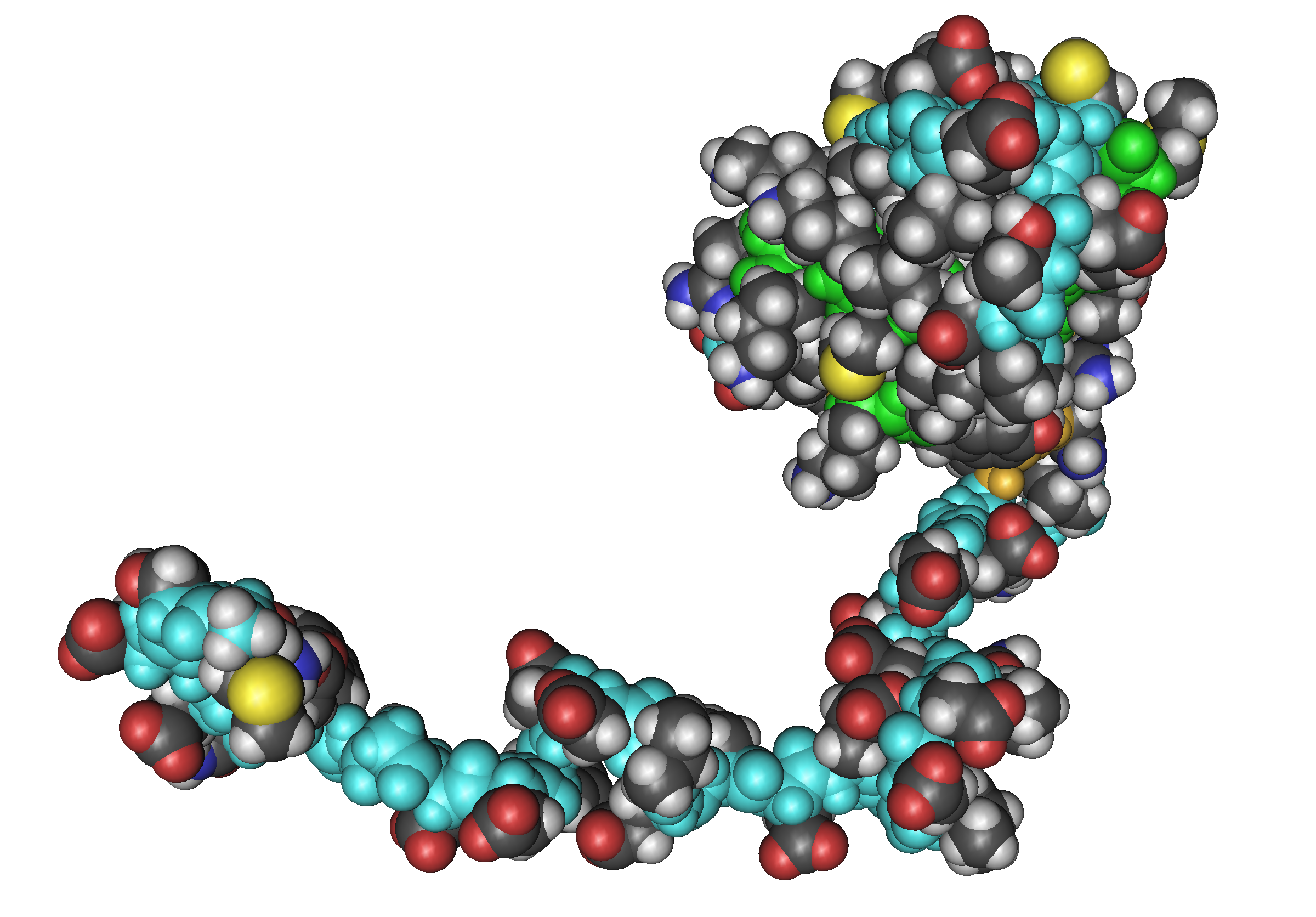 1QKL Essential Subunit Of Human Rna Polymerases I Ii And Iii